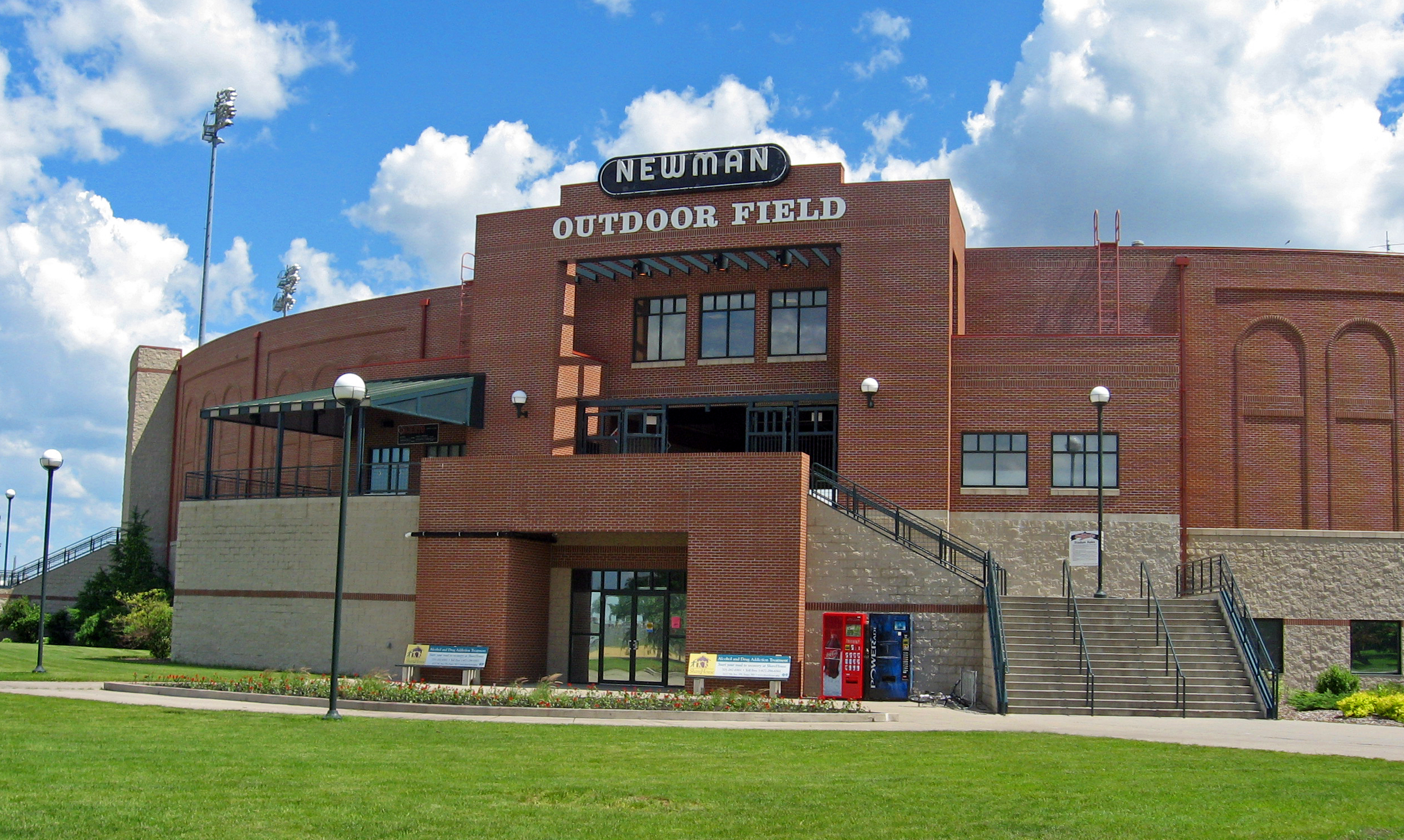 Home of the Northern League's Fargo-Moorhead Redhawks